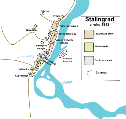 Map of Stalingrad in 1942